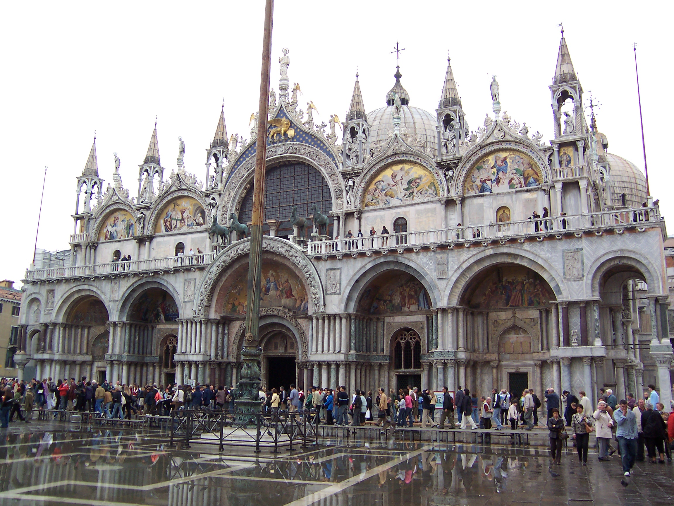 St Mark's Basilica - front facade, Venice, Italy